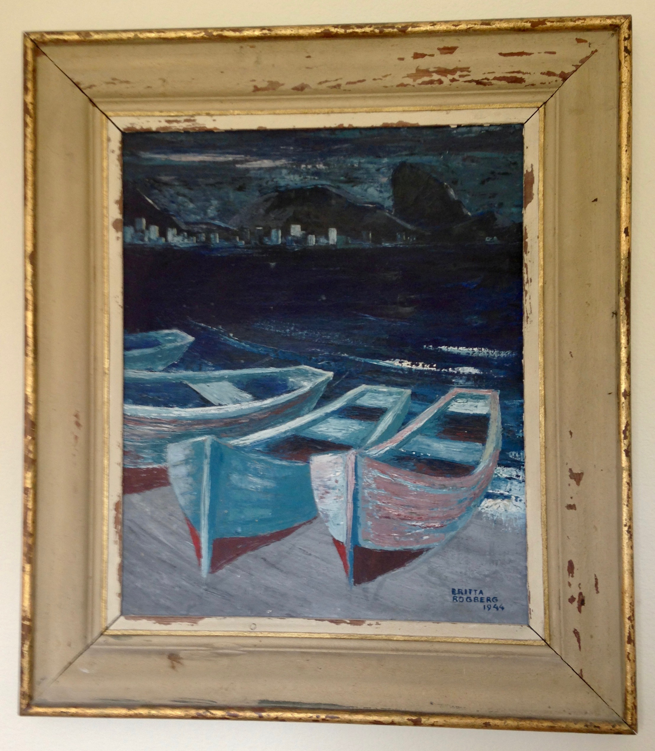 Rio de Janeiro, 1944